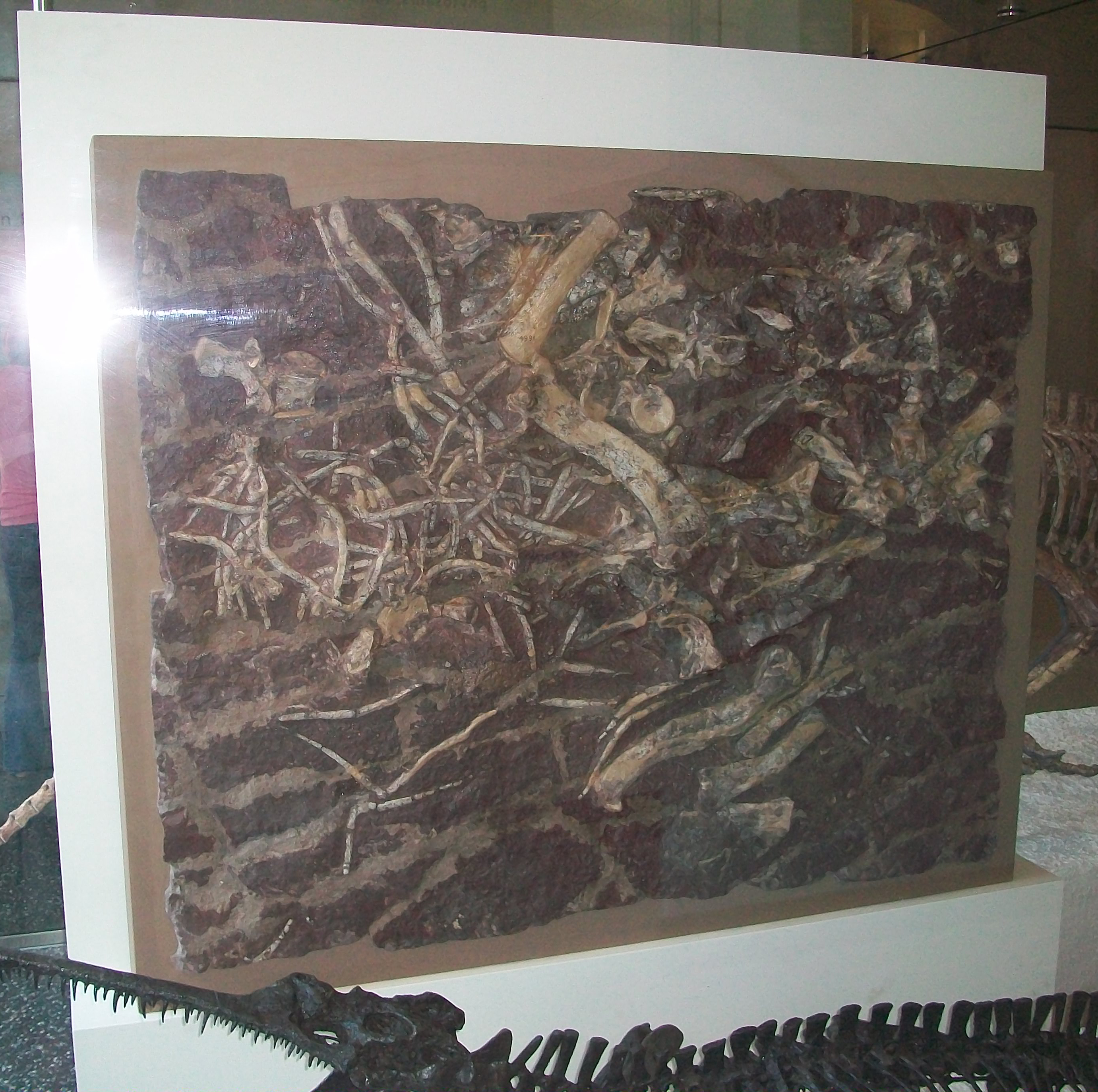 Fossil slab of Rutiodon manhattanensis (AMNH 4991) in the American Museum of Natural History.